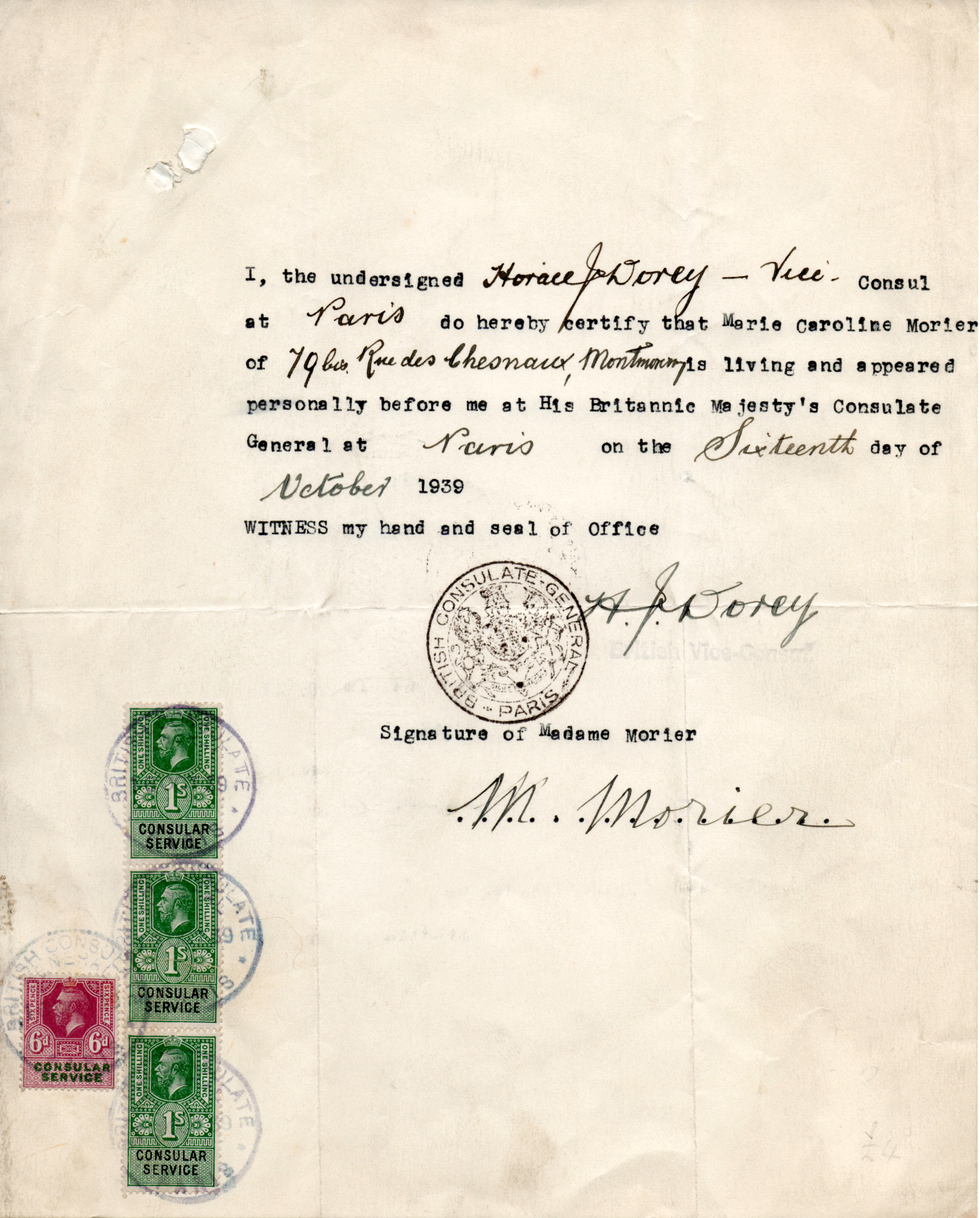 A 1939 Certificate of Life produced at the British embassy in Paris. Crown copyright has expired.